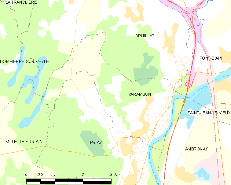 Map of French commune: Varambon Map commune FR insee code 01430.png